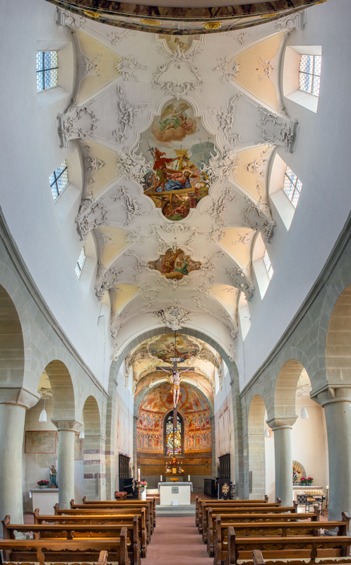 Reichenau ( Baden-Württemberg ). Niederzell village: Church of Saint Peter and Paul ( 12th century ).